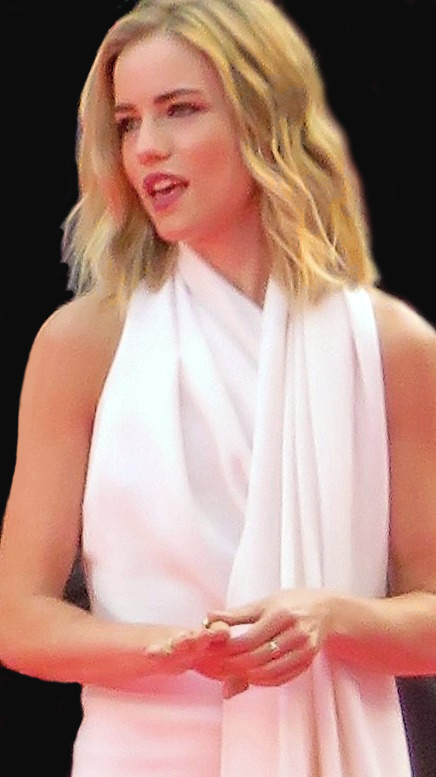 Willa Fitzgerald at the premiere of Goldfinch, 2019 Toronto Film Festival